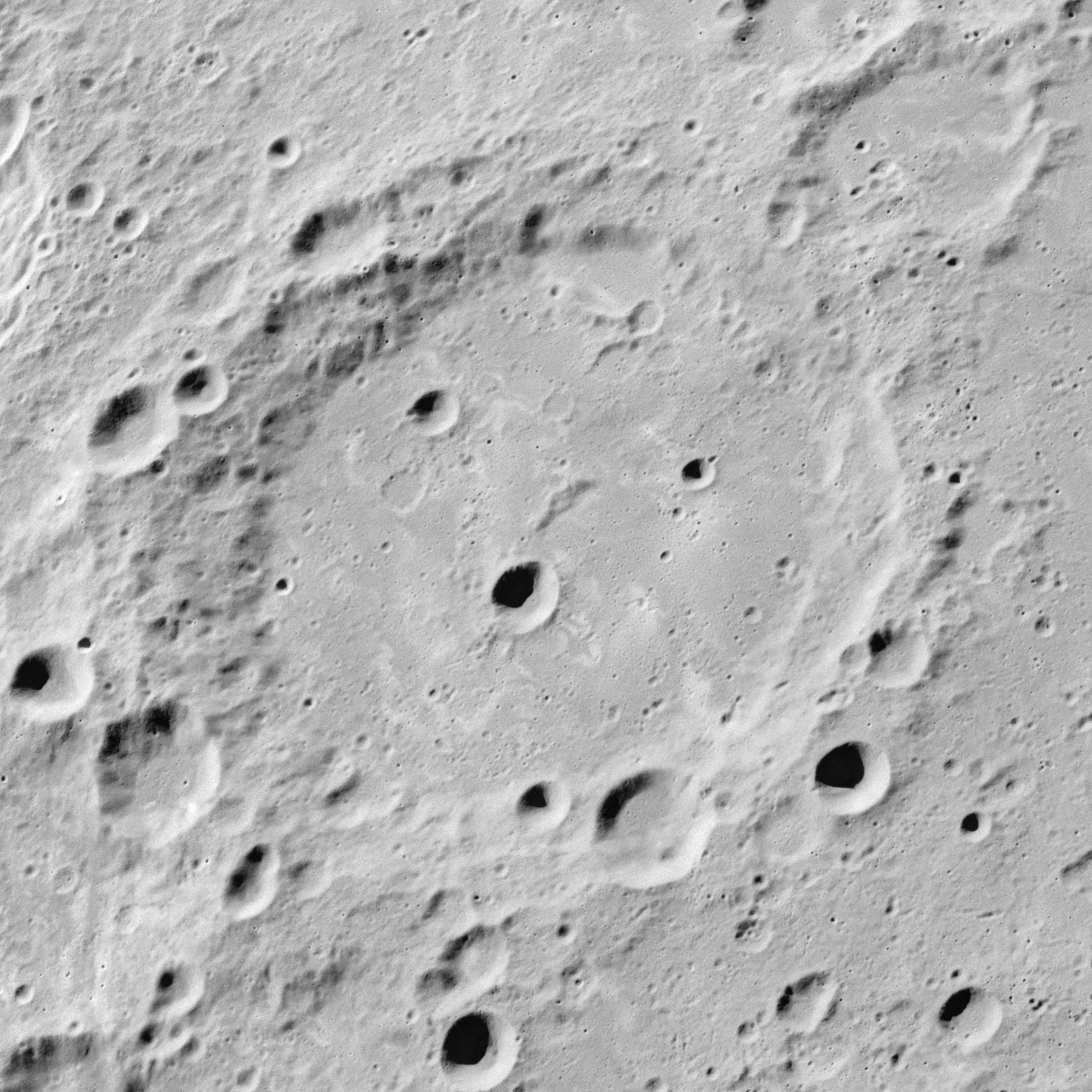 Oblique view of Fleming, on the far side of the moon. North is in upper right.